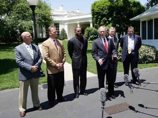 President George W. Bush speaks to reporters with NCAA head football coaches, from left to right, Jack Siedlecki of Yale University, Mark Richt of the University of Georgia, Randy Shannon of the University of Miami, Tommy Tuberville of Auburn University and Charlie Weis of the University of Notre Dame on Monday, May 26, 2008, at the White House. President Bush welcomed the coaches who were recently returning from visiting troops in the Middle East. White House photo by Chris Greenberg